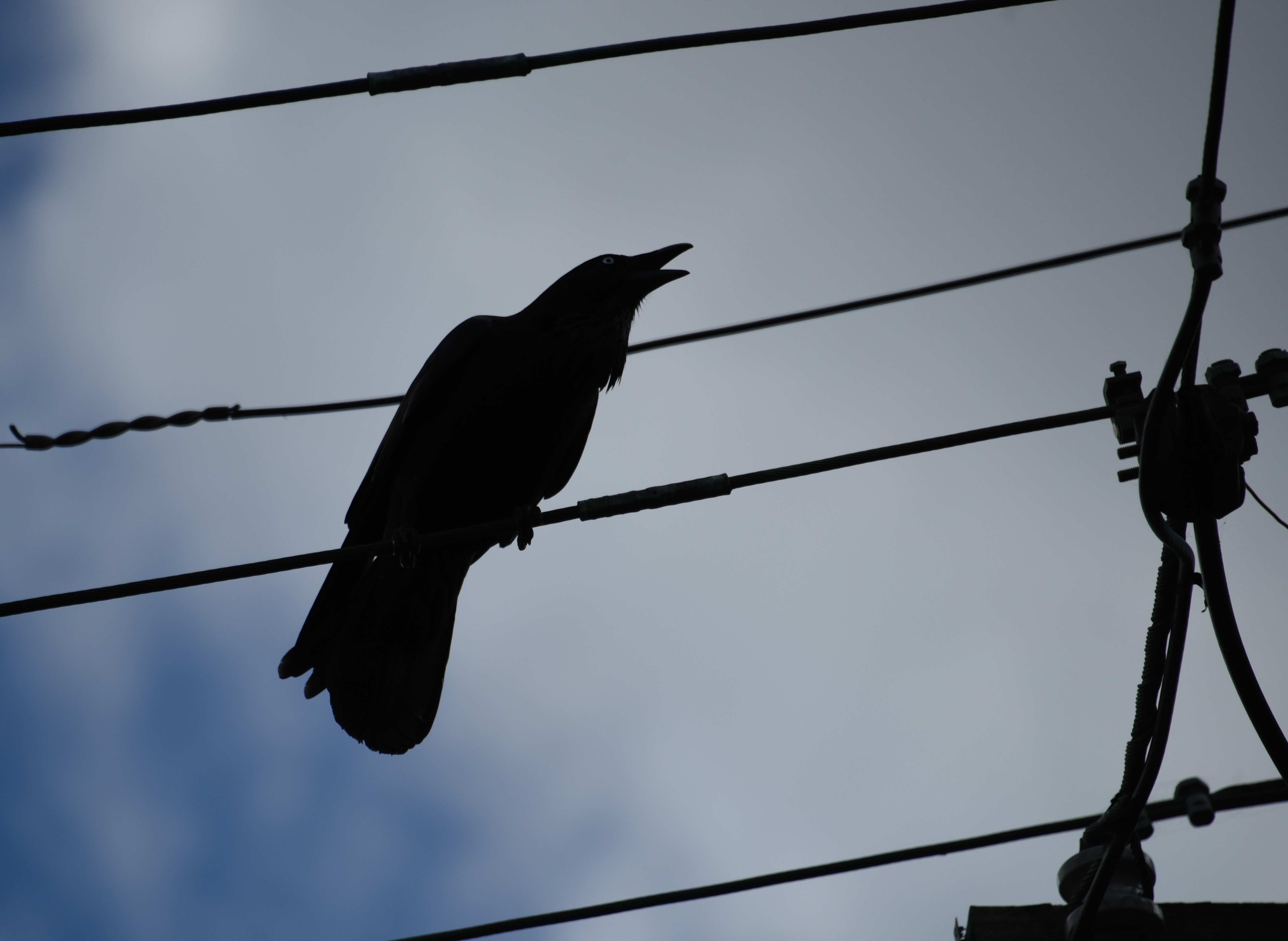 Crow, Kensington, Sydney